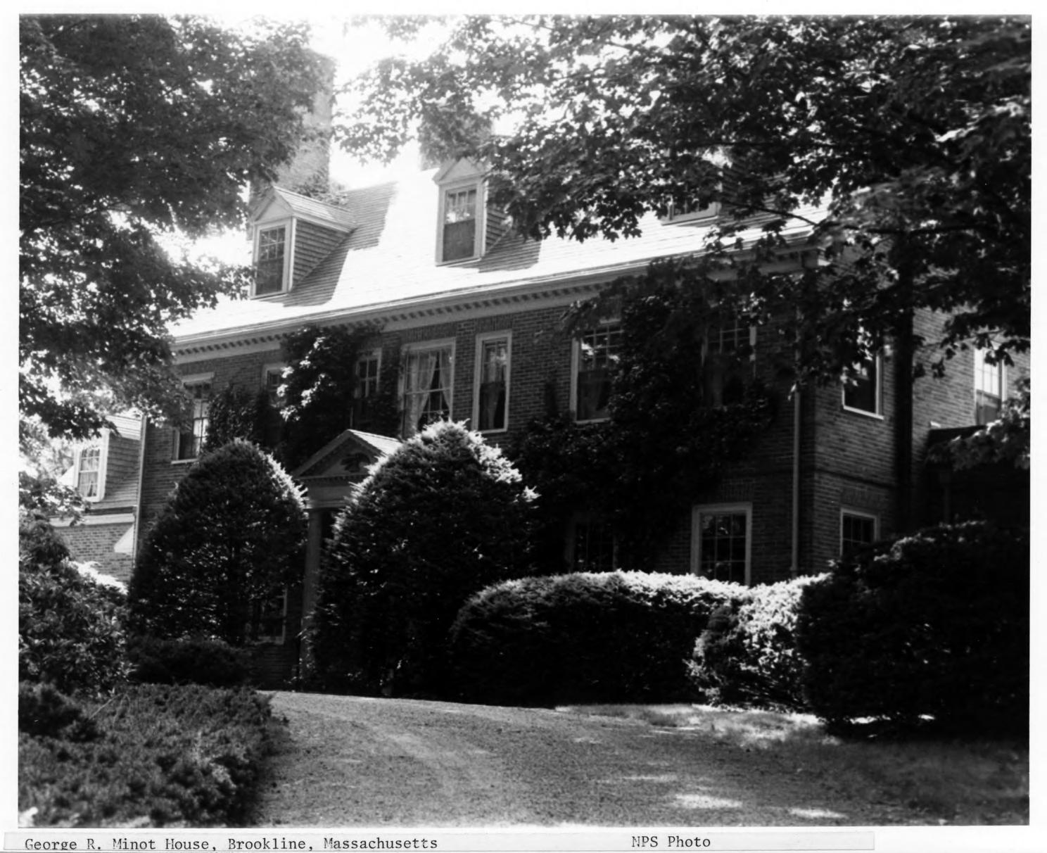 George R. Minot House, Brookline (Norfolk County, Massachusetts) cropped This image or media file contains material based on a work of a National Park Service employee, created during the course of the person's official duties. As a work of the U.S. federal government, such work is in the public domain. See the NPS website and NPS copyright policy for more information. Object location 42° 19′ 3.0″ N, 71° 8′ 21.0″ W This and other images at their locations on: Google Maps - Google Earth - OpenStreetMap - Proximityrama(Info)